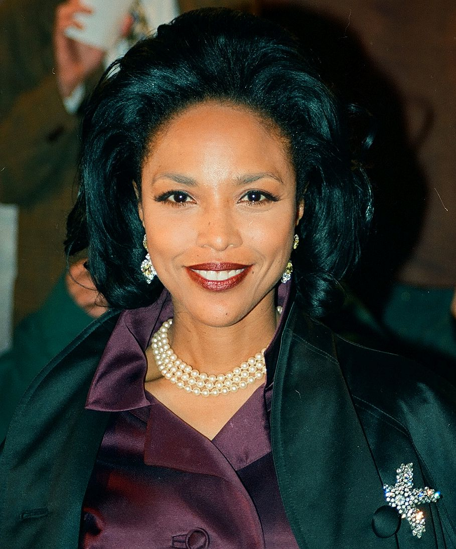 Wash D.C. 1999